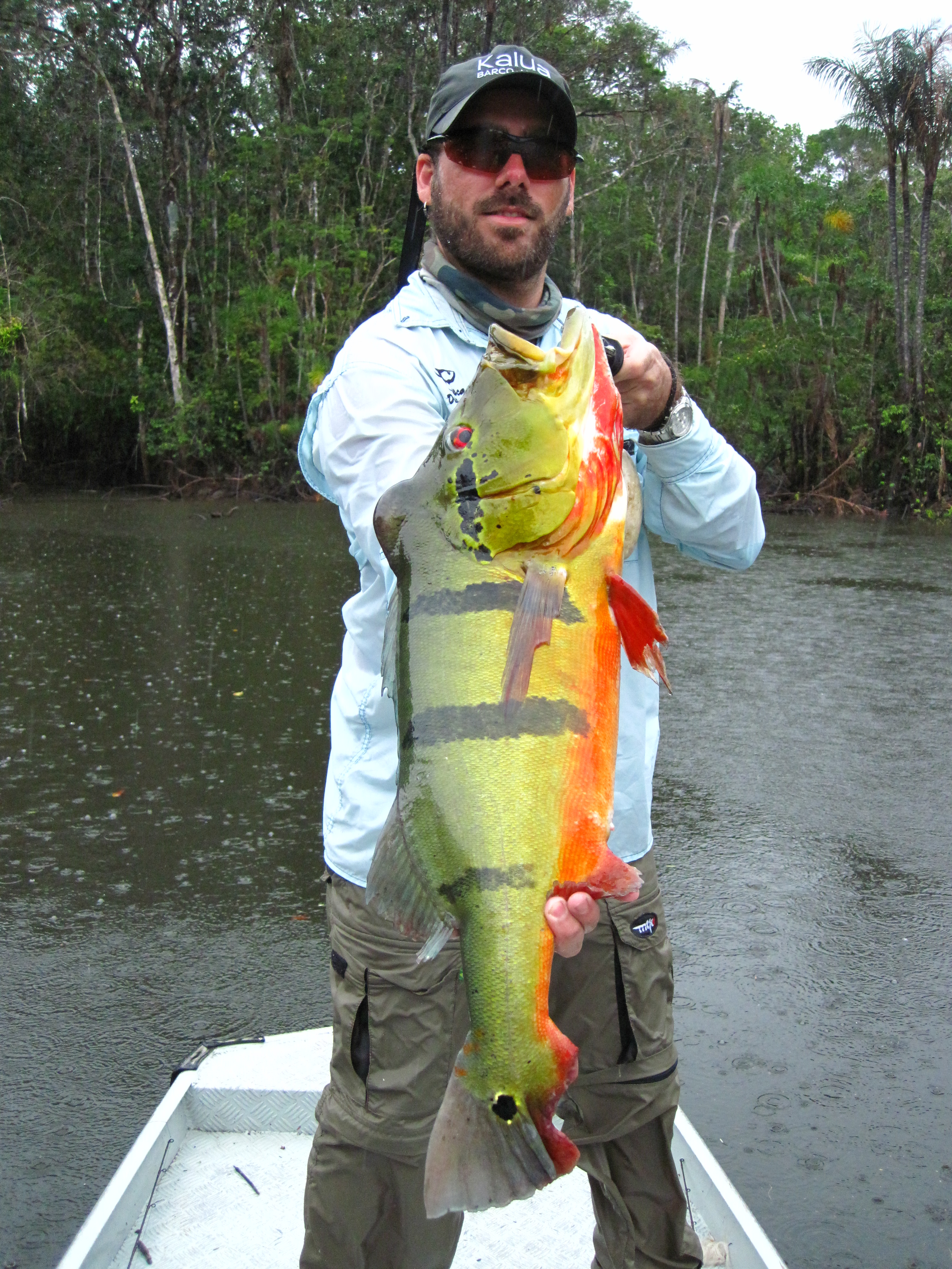 Sport fishing in the Brazilian Amazon will